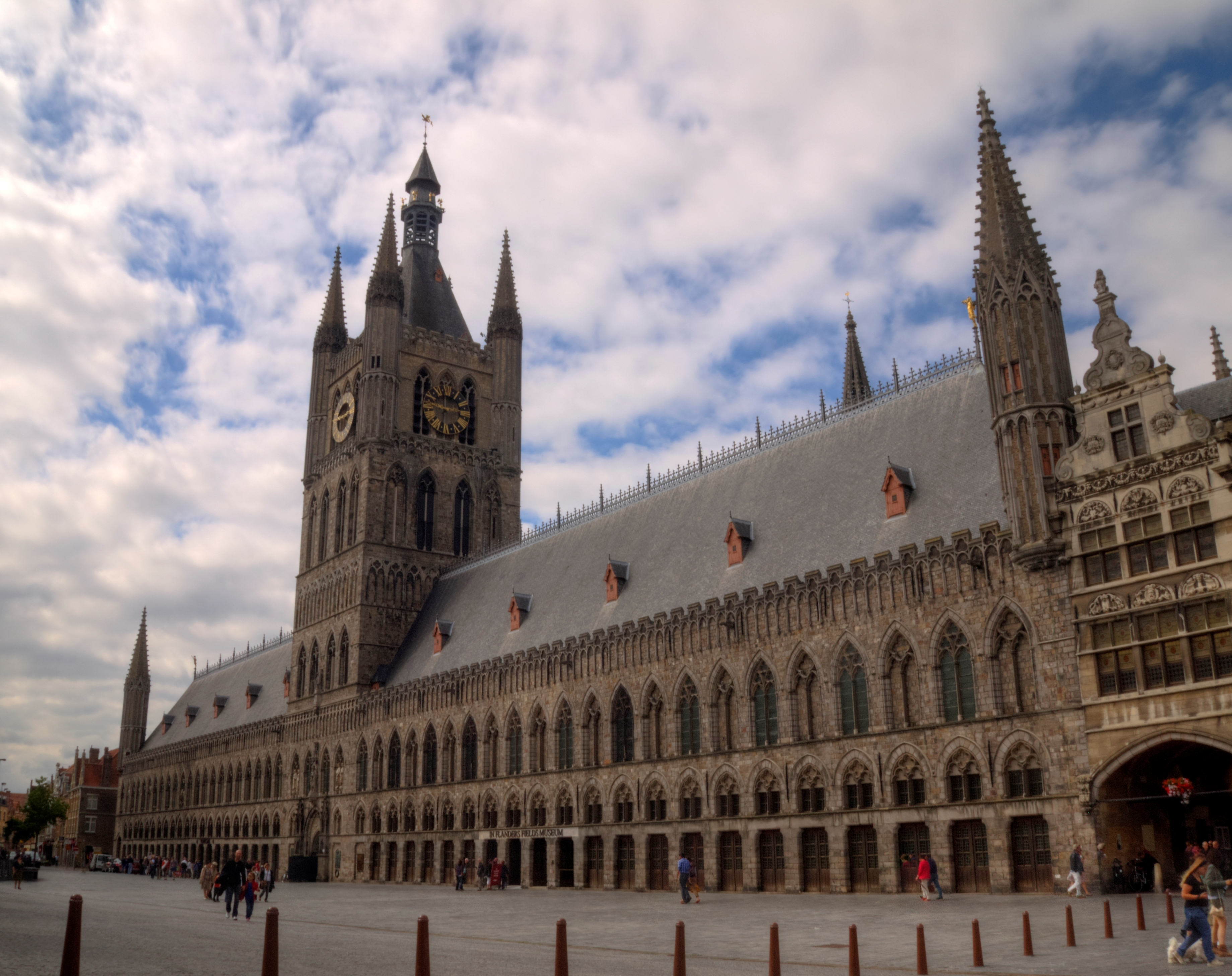 Cloth Hall and Belfry in Ypres. Rebuilt after World War I it now houses the Flanders Fields Museum